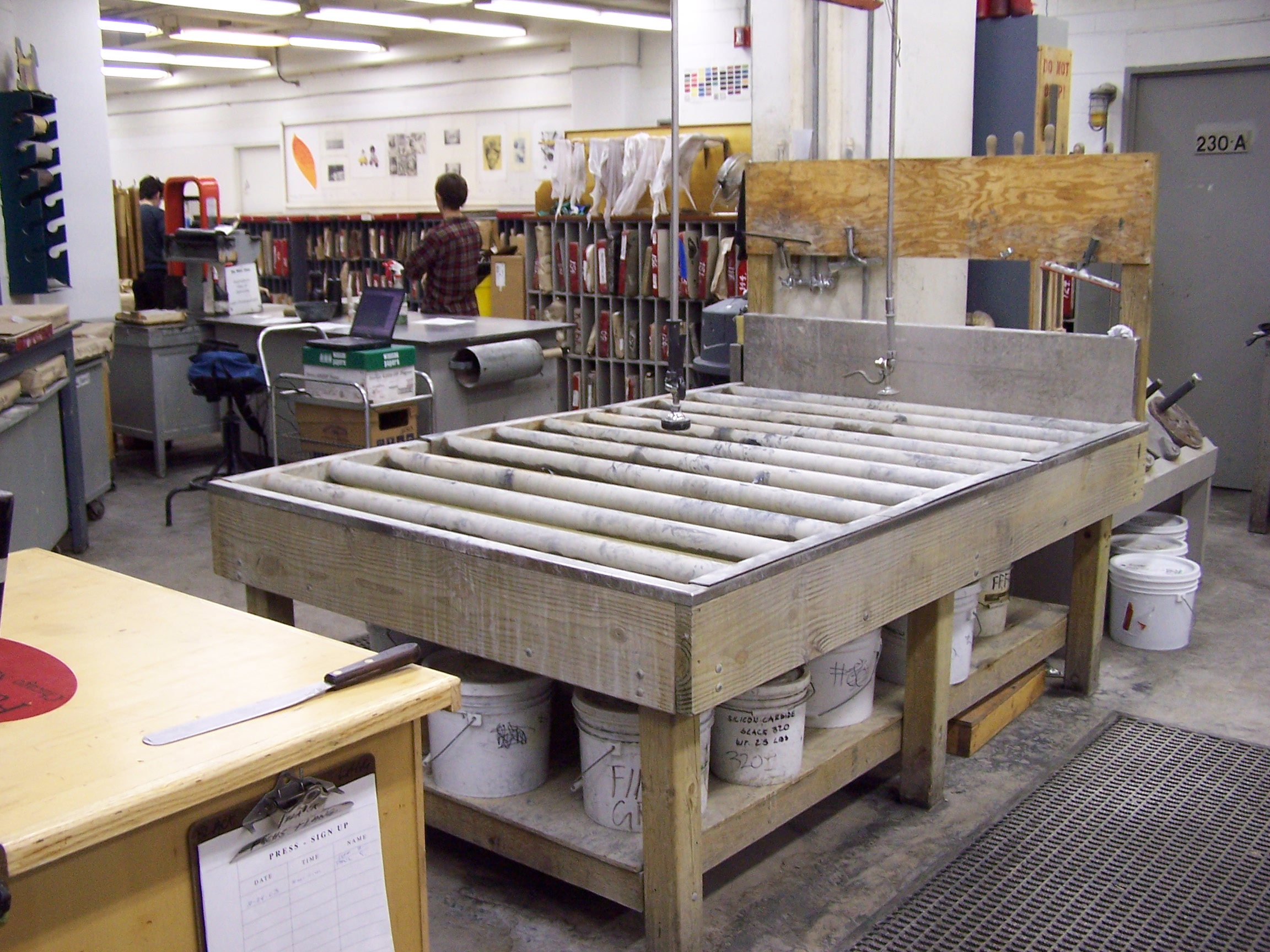 A wood sink in the School of the Art Institute's Printmaking Department at 280 South Columbus Drive in Chicago